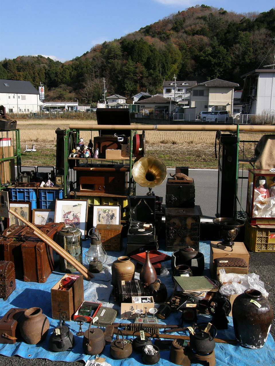 japanese-kottouichi-Antique fairC132630